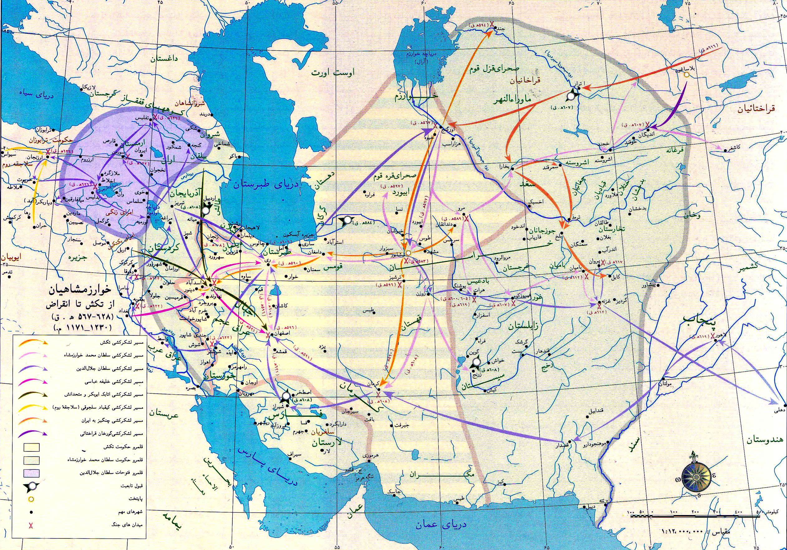 map of Iran during late kharazmshahids 1171-1230 AD